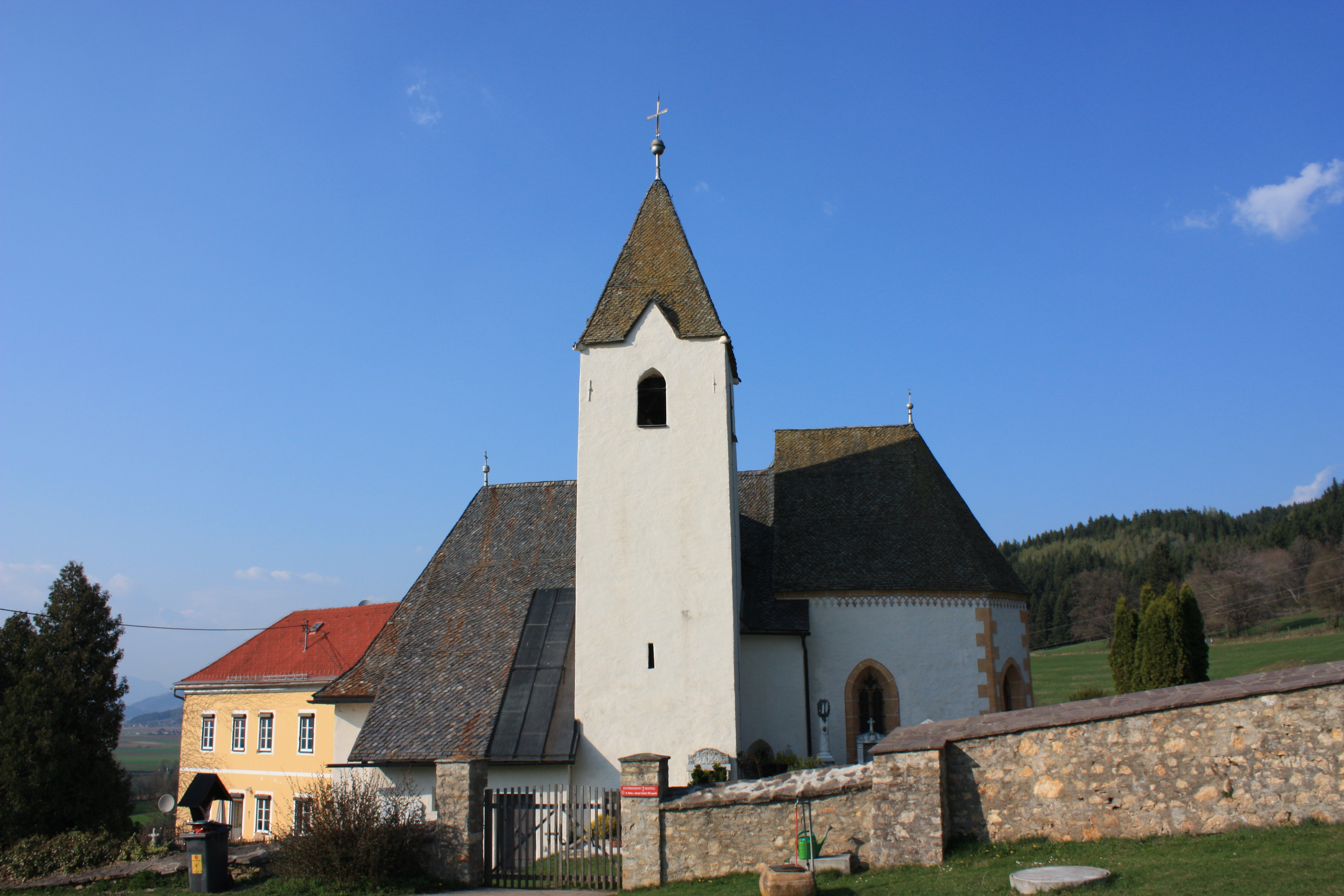 Parish church Sankt Martin Locality:Sankt Martin Community:Kappel am Krappfeld